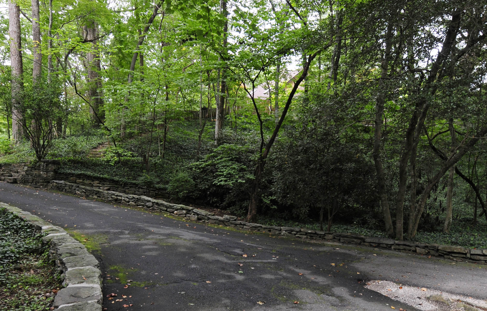 Lynncote